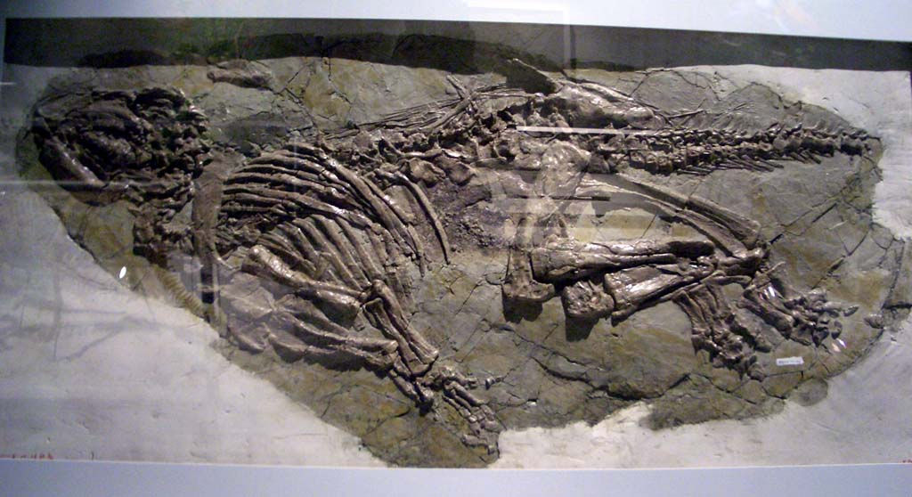 Jinzhousaurus yangi fossil displayed in Hong Kong Science Museum